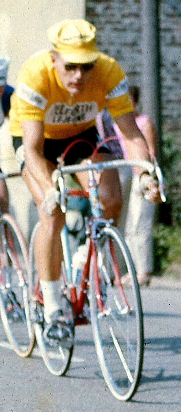 Cropped version of a photograph "Jan Janssen winner Tour de France 1969; picture made at the Adsteeg during the the Dutch Championship" Comment: Dit is niet het NK. Het is een criterium waarin Janssen de gele trui draagt. Bron: Tekstman (talk) 19:45, 1 October 2008 (UTC)